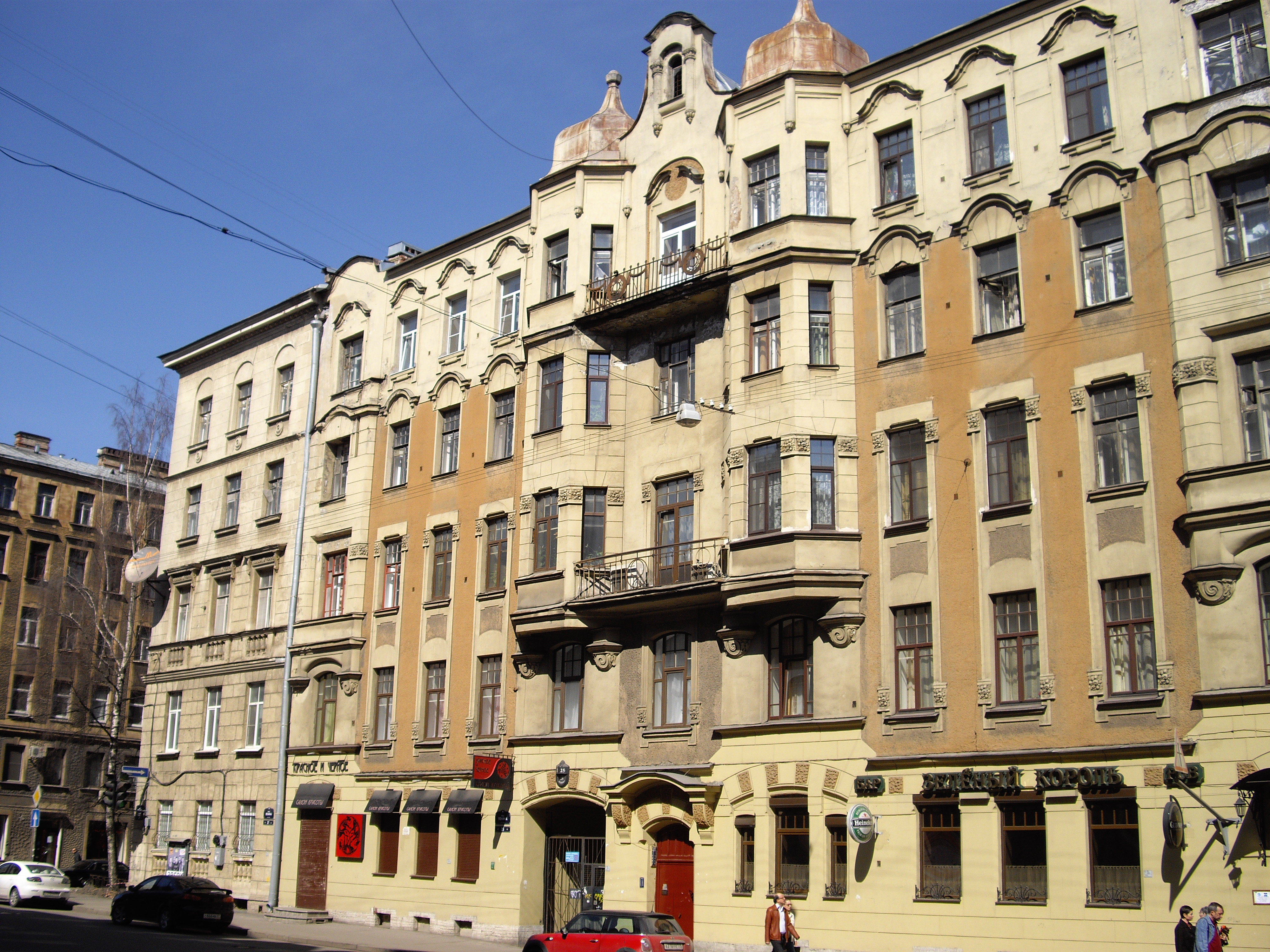 25 and 27, Lenina Street in Saint Petersburg near the crossing with Maly Prospekt (Petrograd Side)UnknownUnknown улица ленина (санкт-петербург), дома 25 и 27 у пересечения с малым проспектом петроградской стороны